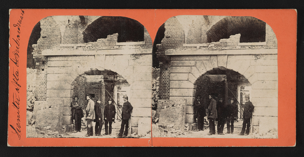 Sumter after bombardment by Osborn & Durbec's Southern Stereoscopic & Photographic Depot, Charleston, S.C. Library of Congress Prints and Photographs Division